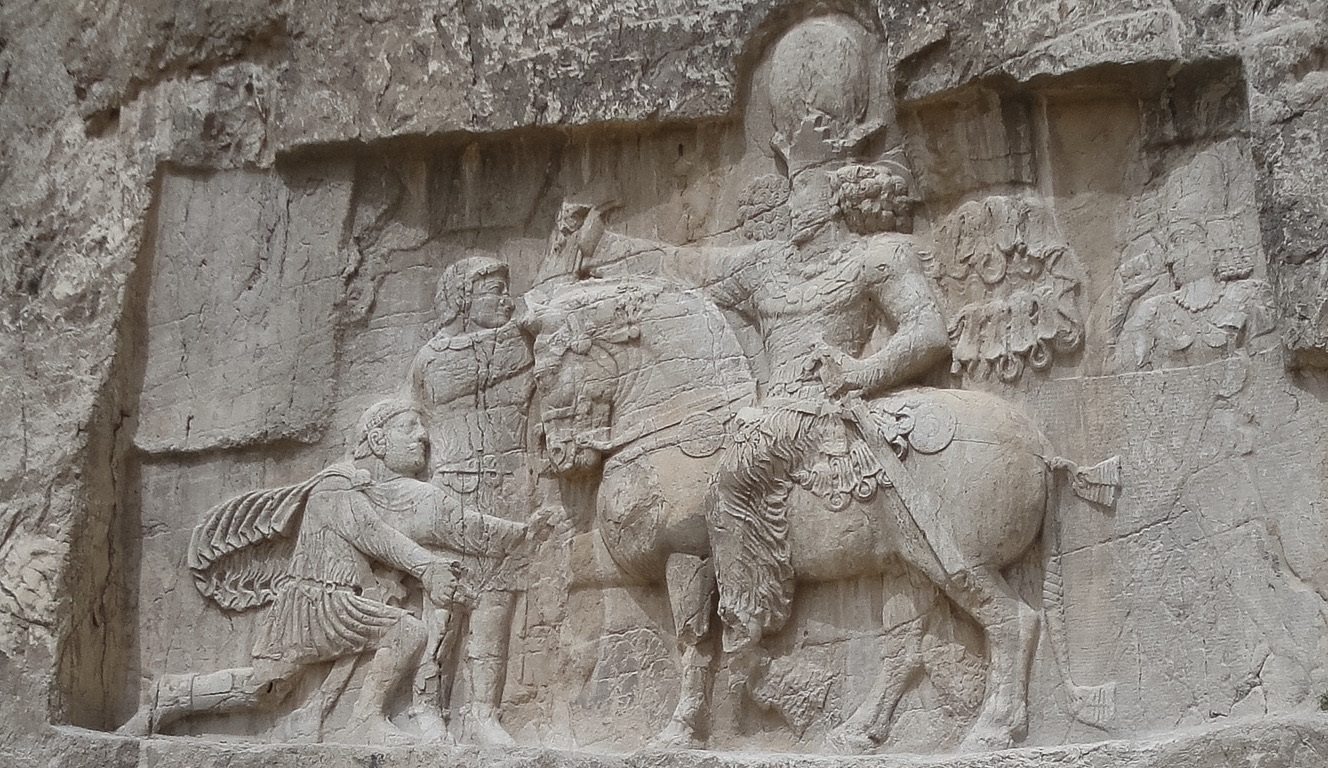 A bas-relief at Naqš e Rostam, depicting the victory of Sasanian emperor Shapur I over Roman emperor Valerian.